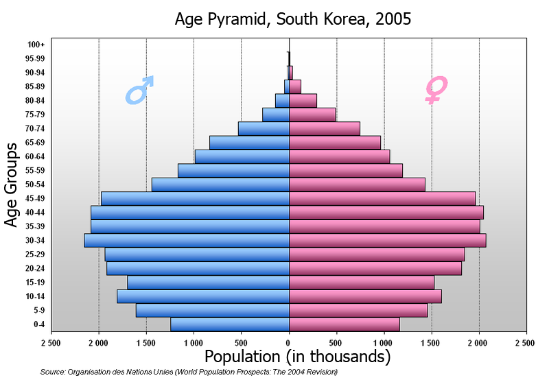 English translation of age pyramid for south korea